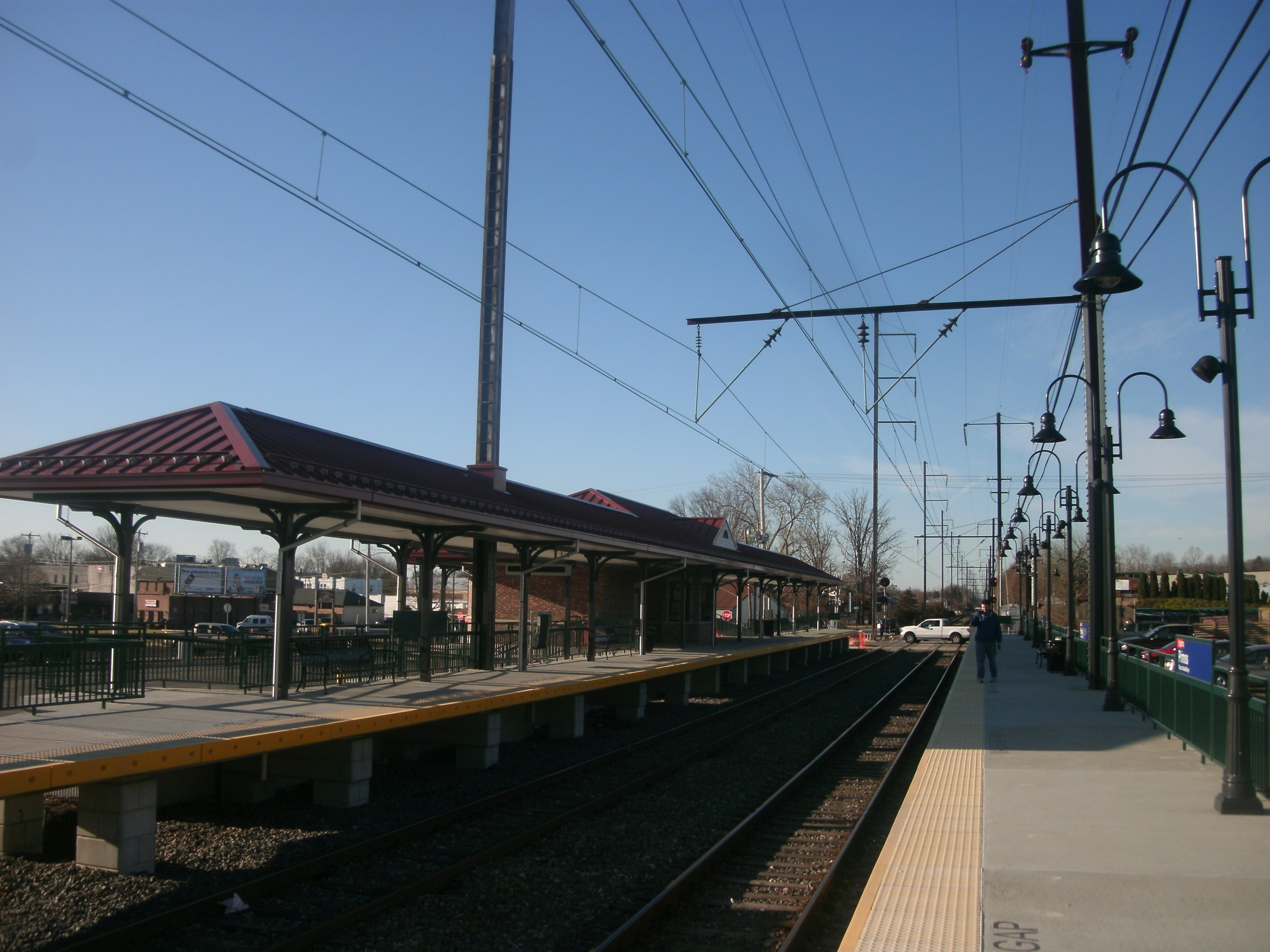 The Primos station on SEPTA's Media Elwyn Line, after construction of the high-level platforms.